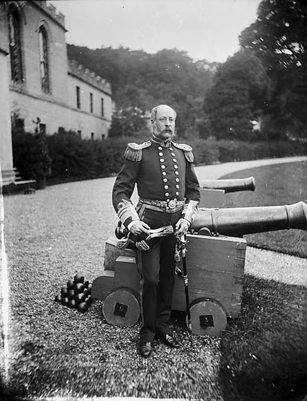 Henry Paget, 4th Marquis of Anglesey (1835-98) Teitl Cymraeg/Welsh title: Henry Paget, 4ydd Marcwis Mon (1835-98) Ffotograffydd/Photographer: John Thomas (1838-1905) Dyddiad/Date: [ca. 1885] Cyfrwng/Medium: Negydd gwydr / Glass negative Maint/Dimensions: 21.5 x 16.5 cm. Cyfeiriad/Reference:jth01764 Rhif cofnod / Record no.: 3362716 Rhagor o wybodaeth am gasgliad John Thomas yn Llyfrgell Genedlaethol Cymru More information about the John Thomas Collection at the National Library of Wales Mae ffotograffau John Thomas hefyd yn rhan o Broject Europeana Libraries, cliciwch yma am fwy o wybodaeth John Thomas' photographs also form part of the Europeana Libraries Project, click here for more information